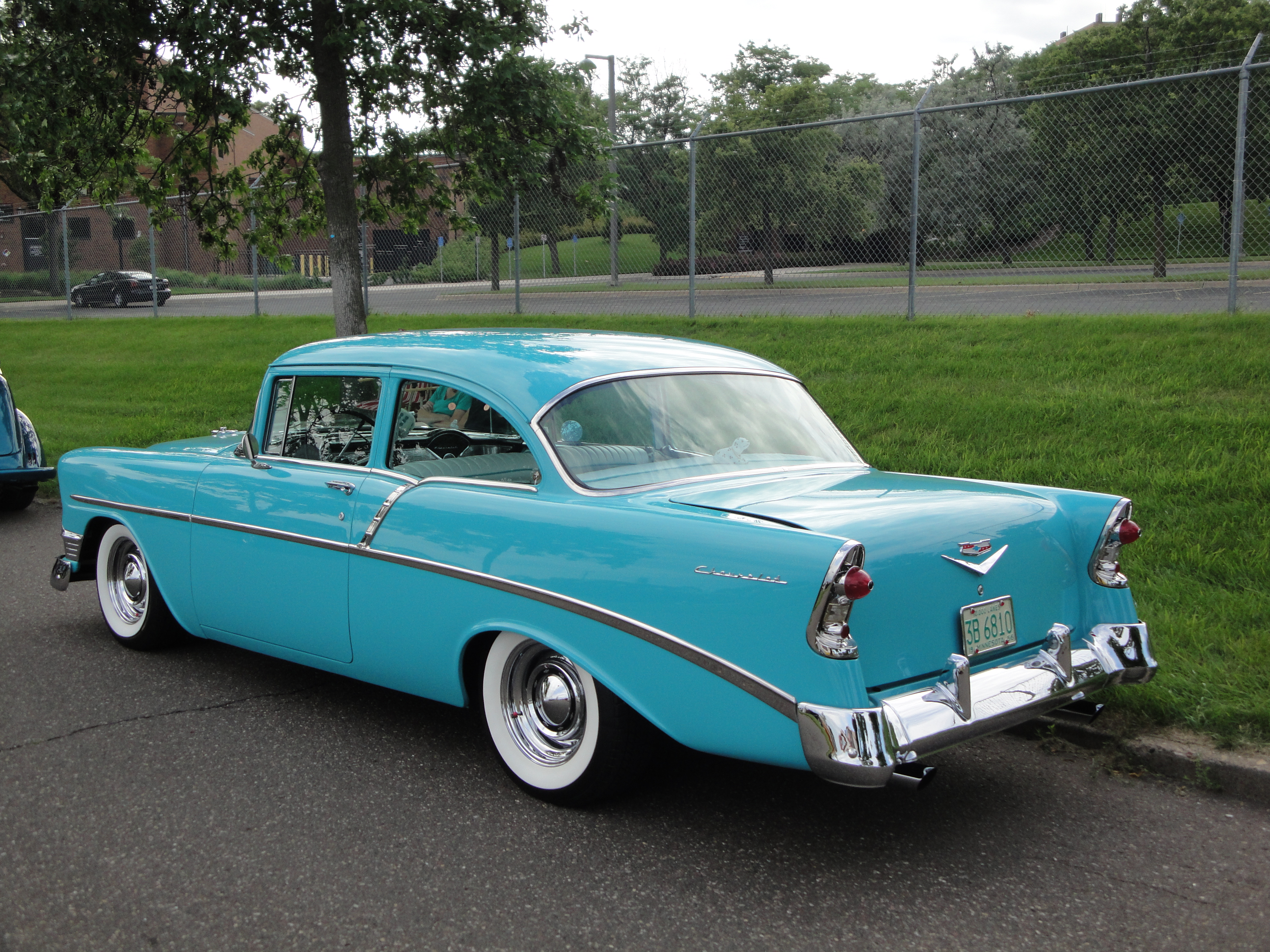 Minnesota Street Rod Association 39th Annual "Back to the Fifties" June 2012 Minnesota State Fairgrounds St. Paul MN